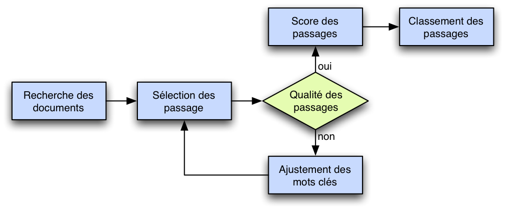 Documents research in question answering system